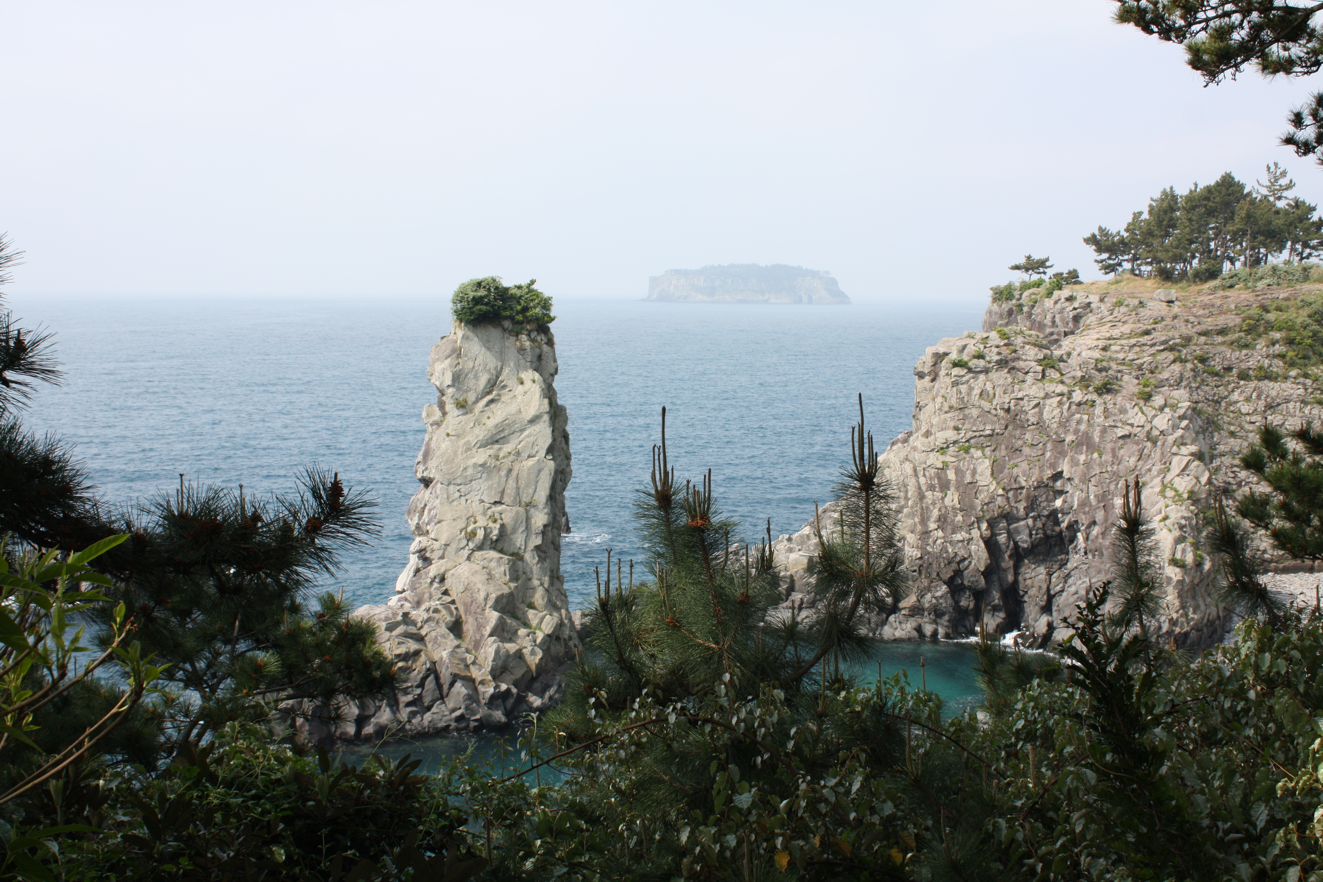 This is the picture of Oedolgae Rock in course 7 of Ollegil in Jeju Island.